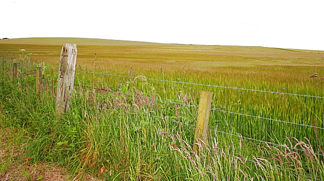 Monoculture This single barley field seems to cover all the land on the west side of Govel Hill.